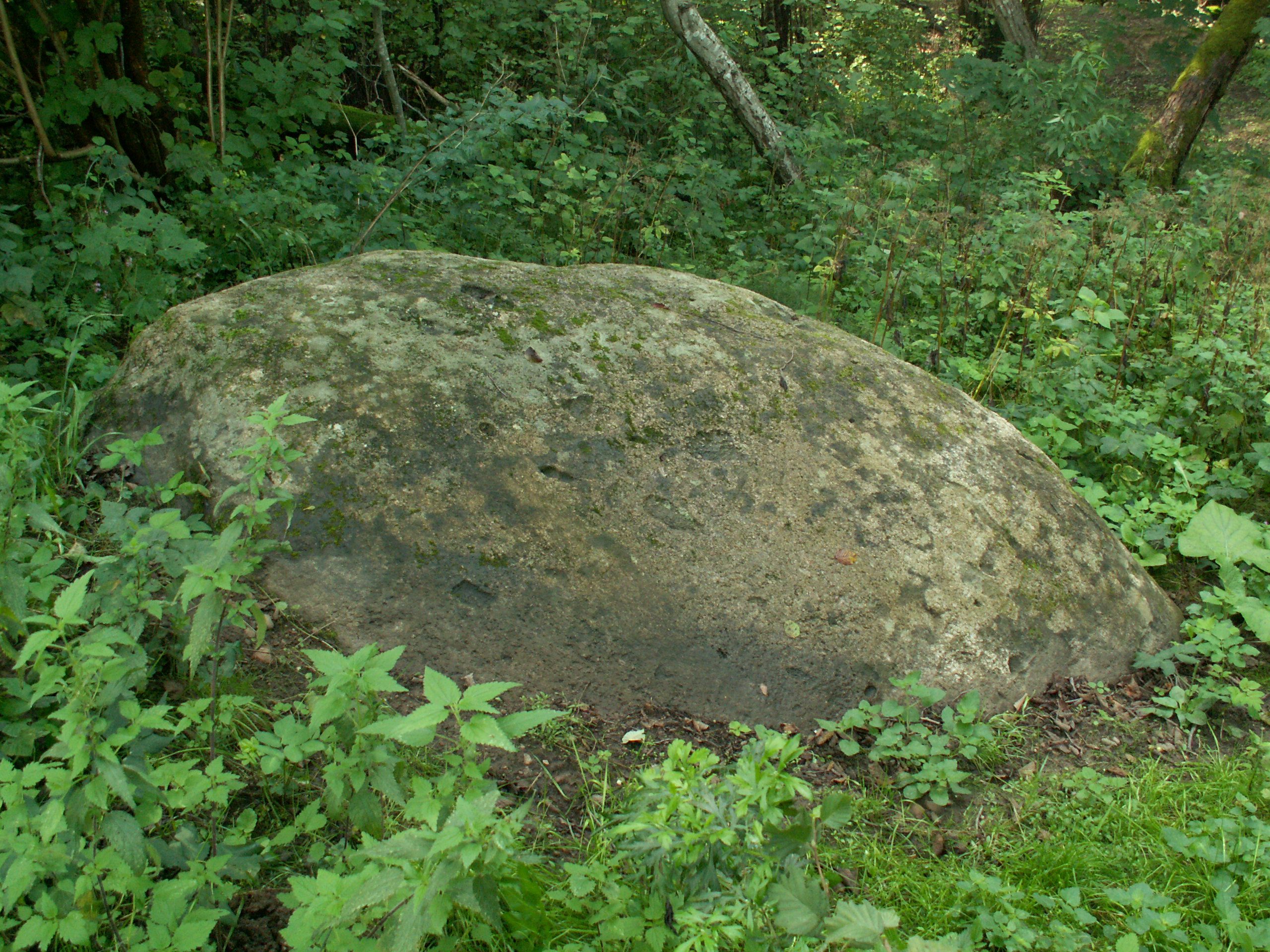 Kartena stone, Kretinga district, Lithuania